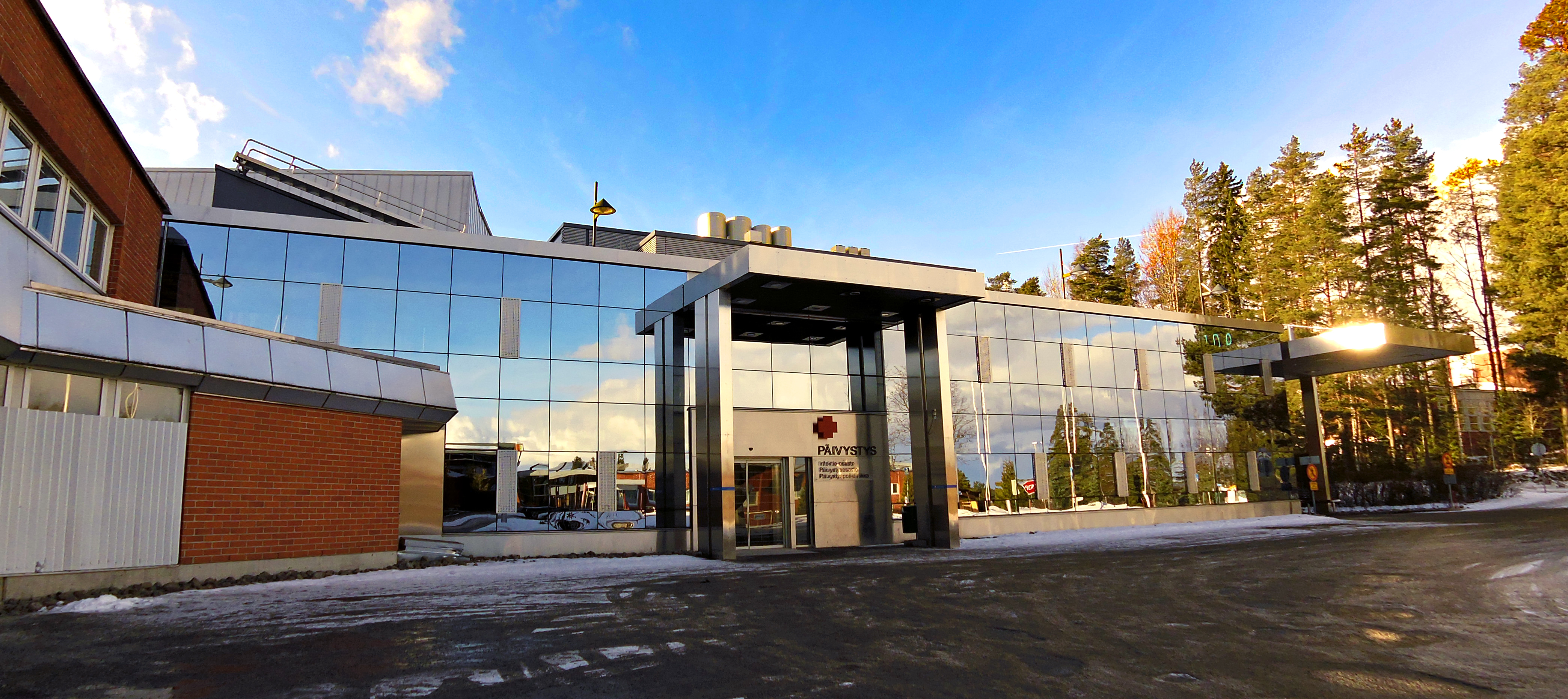 Duty in Central Finland Central Hospital.